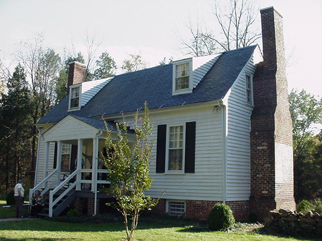 Image taken by Anne Wilson of the Society of the Descendants of Peter Francisco; she has allowed its use on Wikipedia